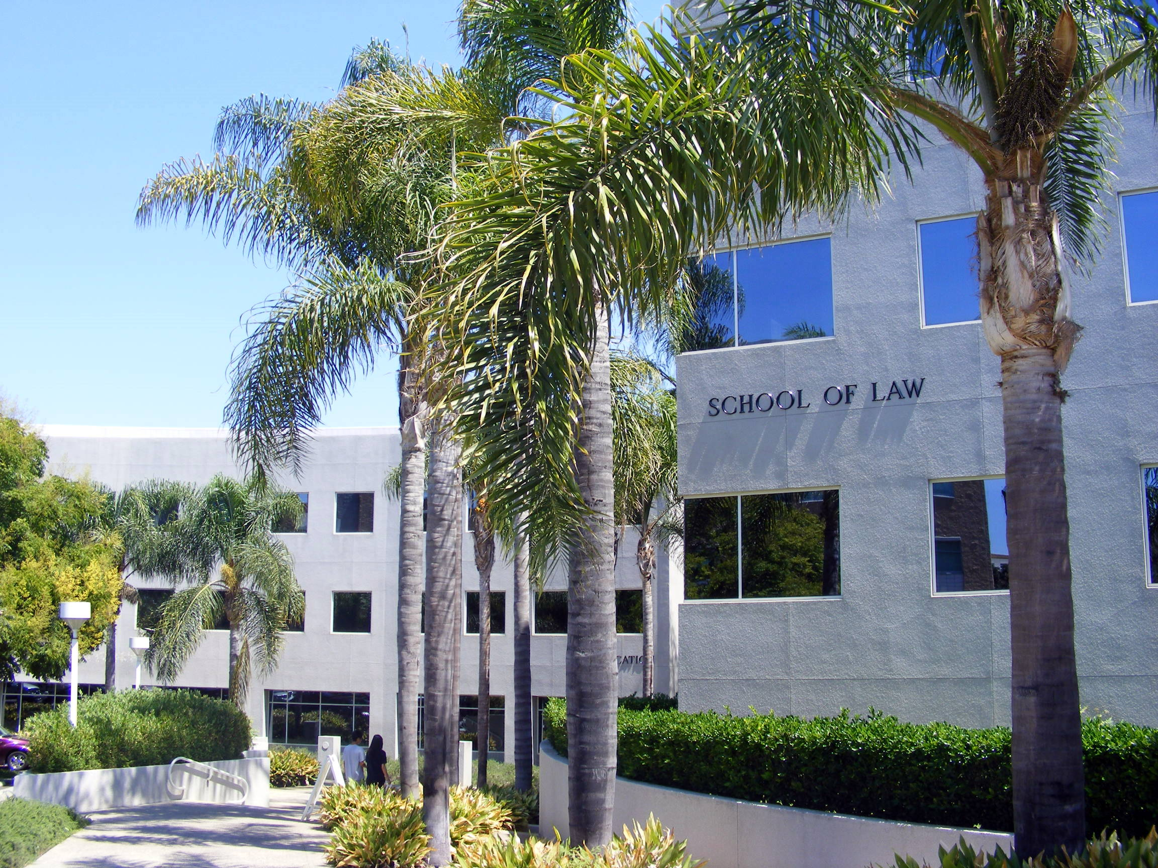 The Schools of Law and Education buildings at the University of California, Irvine, with the Law building in the foreground to the right and Education building in the background to the left.